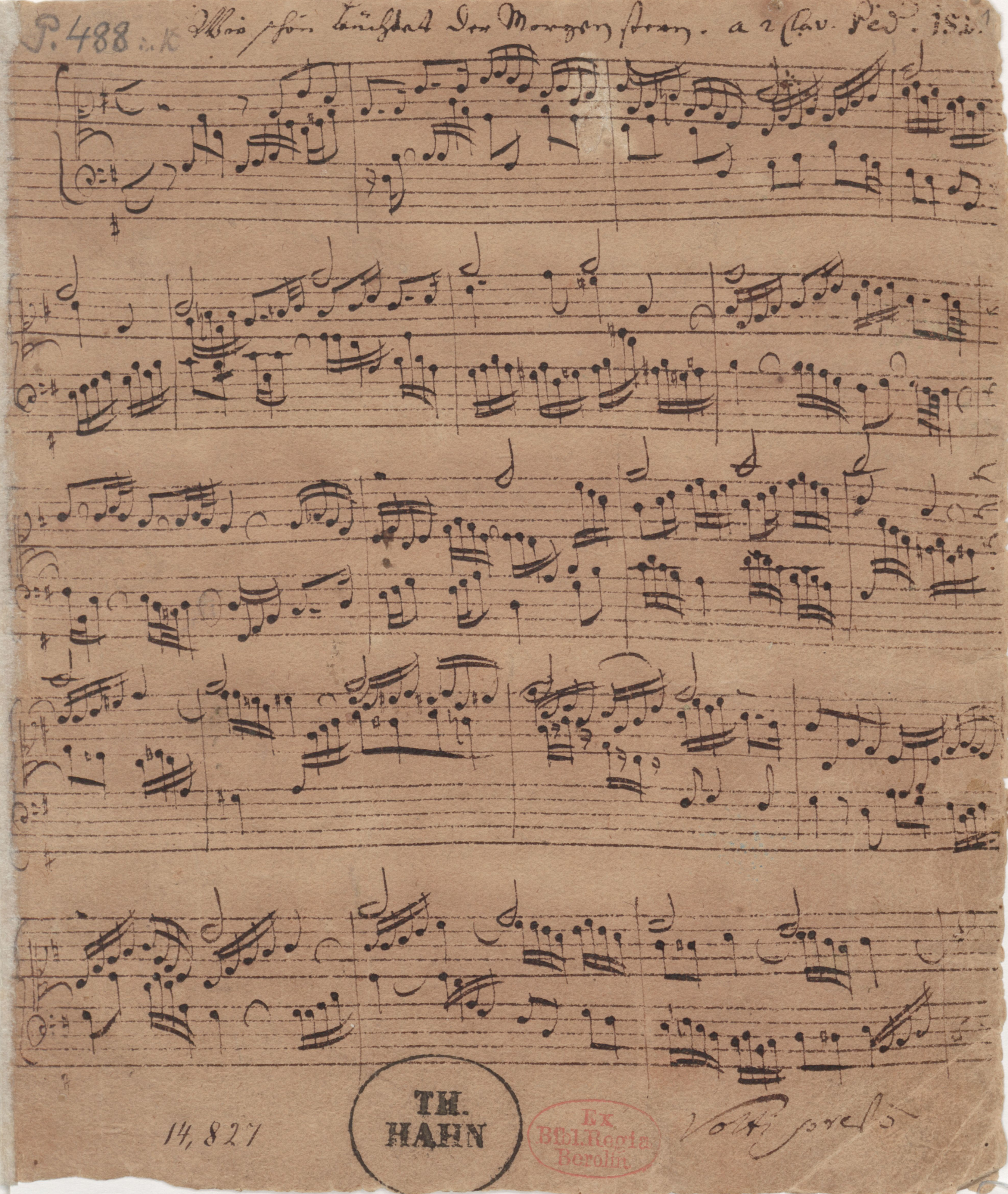 First page of the autograph manuscript of the chorale prelude for organ ,Wie schön leuchtet der Morgenstern, BWV 739